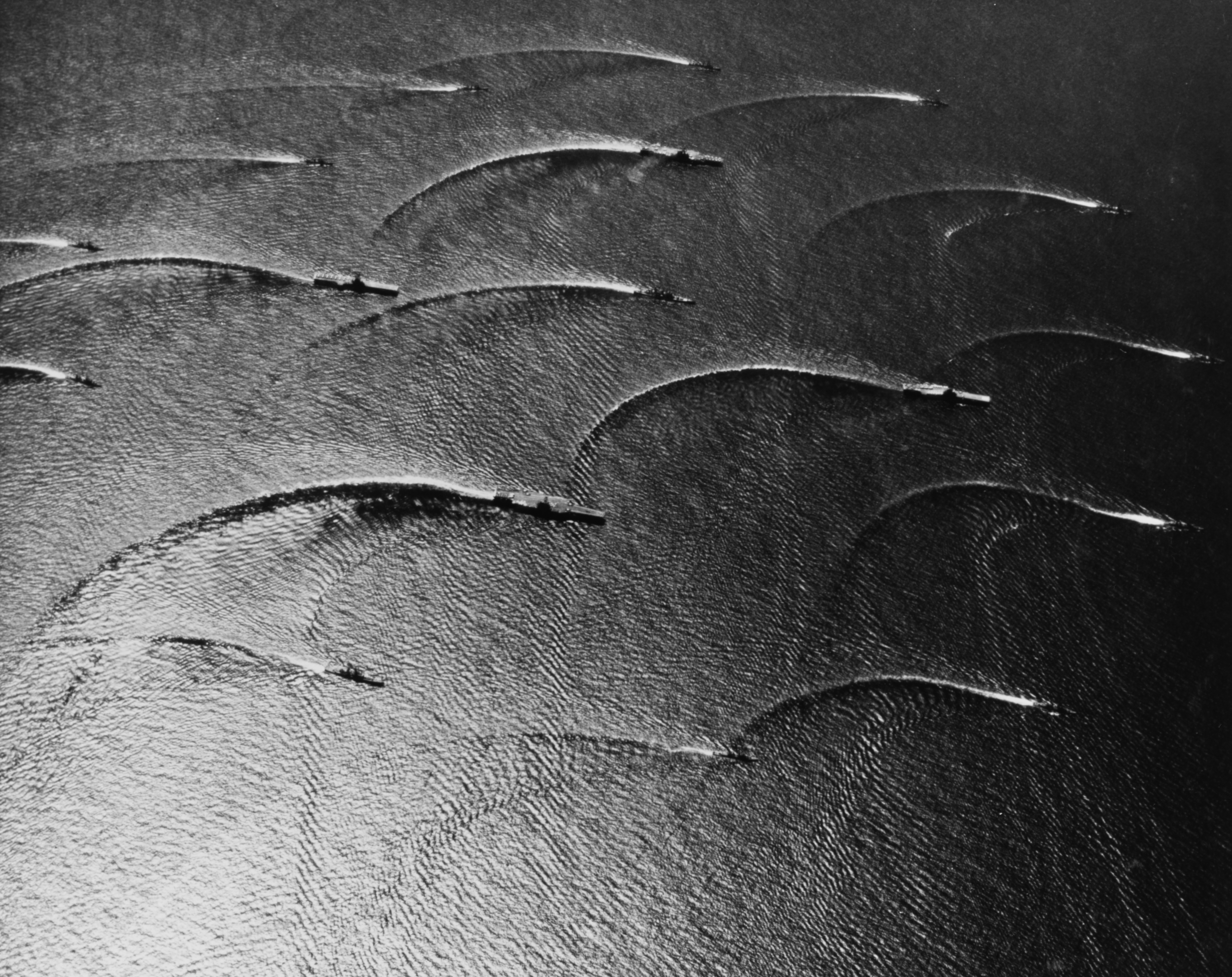 The U.S. Navy Task Force 77 operating in the South China Sea, March 1965. It had recently launched strikes against North Vietnam. Carriers present are (clockwise from bottom): Ranger (CVA-61), Yorktown (CVS-10), Coral Sea (CVA-43) and Hancock (CVA-19). The guided missile cruiser Canberra (CAG-2) is in the center of the formation. The destroyer screen includes: England (DLG-22), Gurke (DD-783), Rogers (DD-876), Walker (DD-517), O'Bannon (DD-450), Somers (DD-947), Jenkins (DD-447), John A. Bole (DD-755), Higbee (DD-806), Buck (DD-761), Joseph Strauss (DDG-16) and Ernest G. Small (DD-838). This photograph was specially posed, and does not represent a normal operating formation.